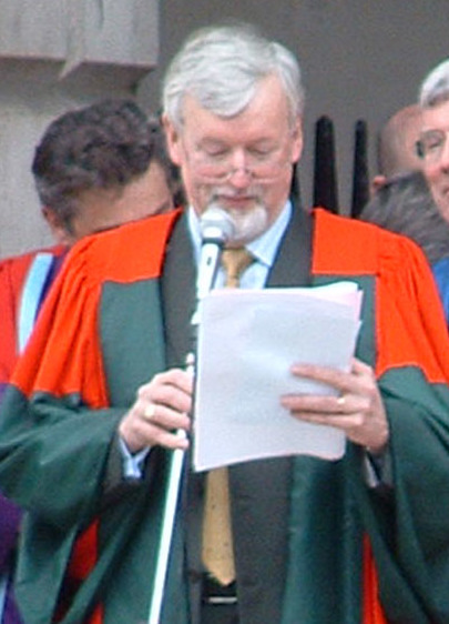 John Hegarty announcing new scholars and fellows in May 2005.